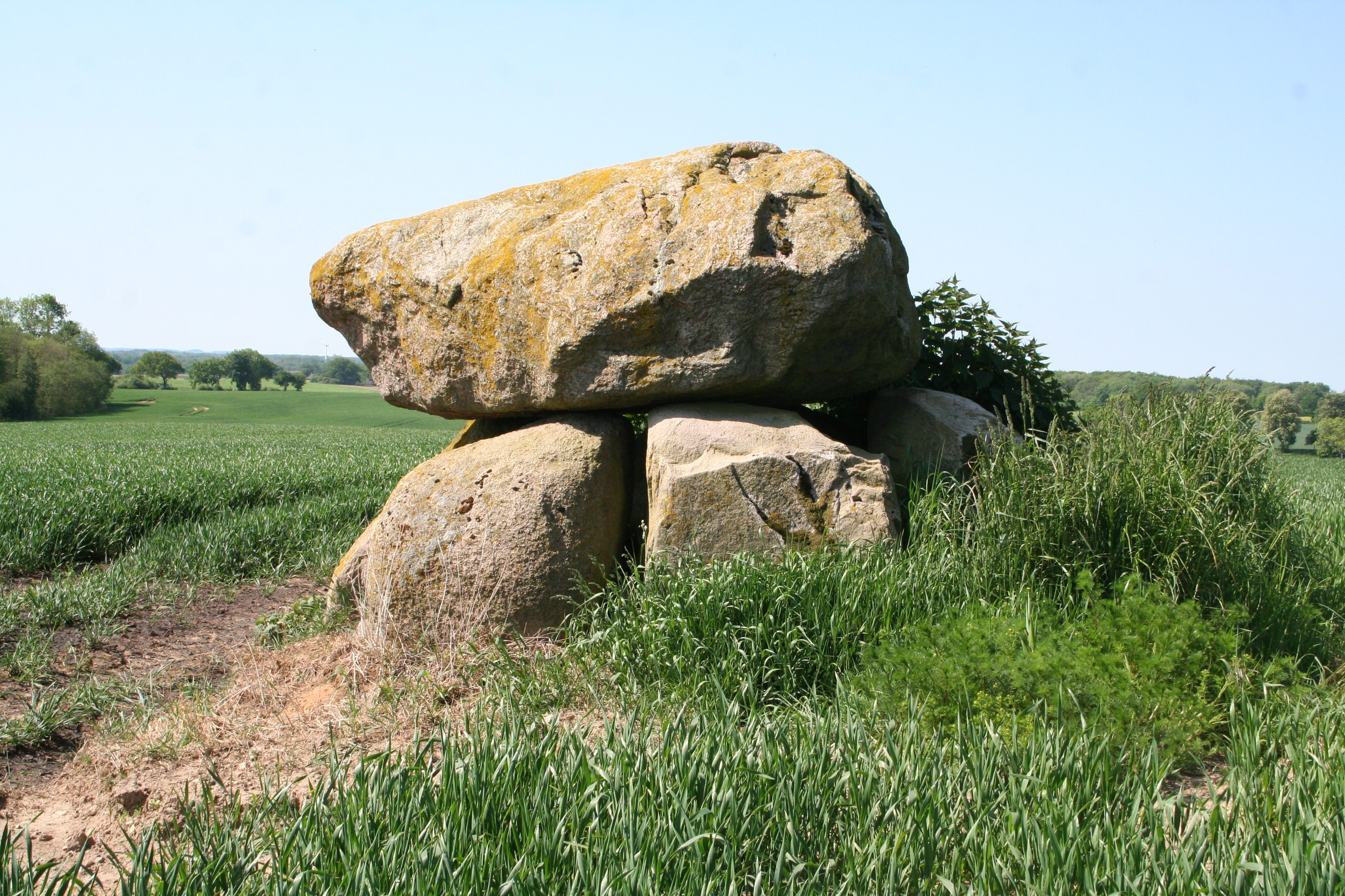 Großsteingrab Birkenmoor 14